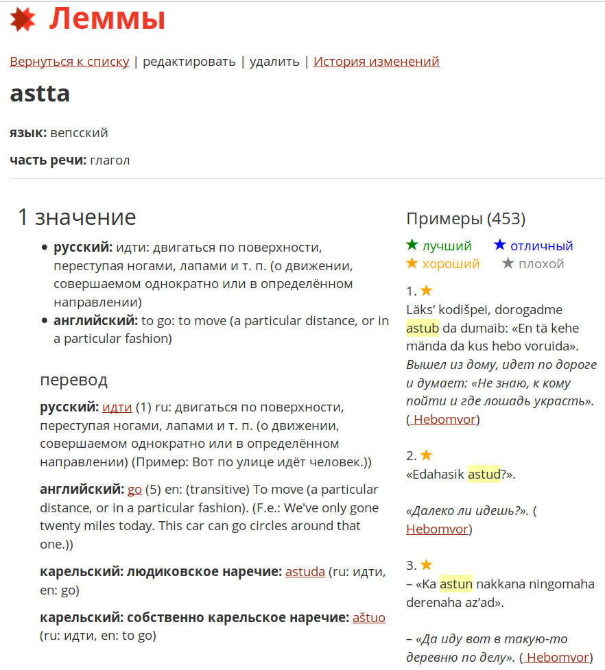 The Veps dictionary entry astta in the Open corpus of Veps and Karelian languages. Karelian Research Centre of RAS, 2019.